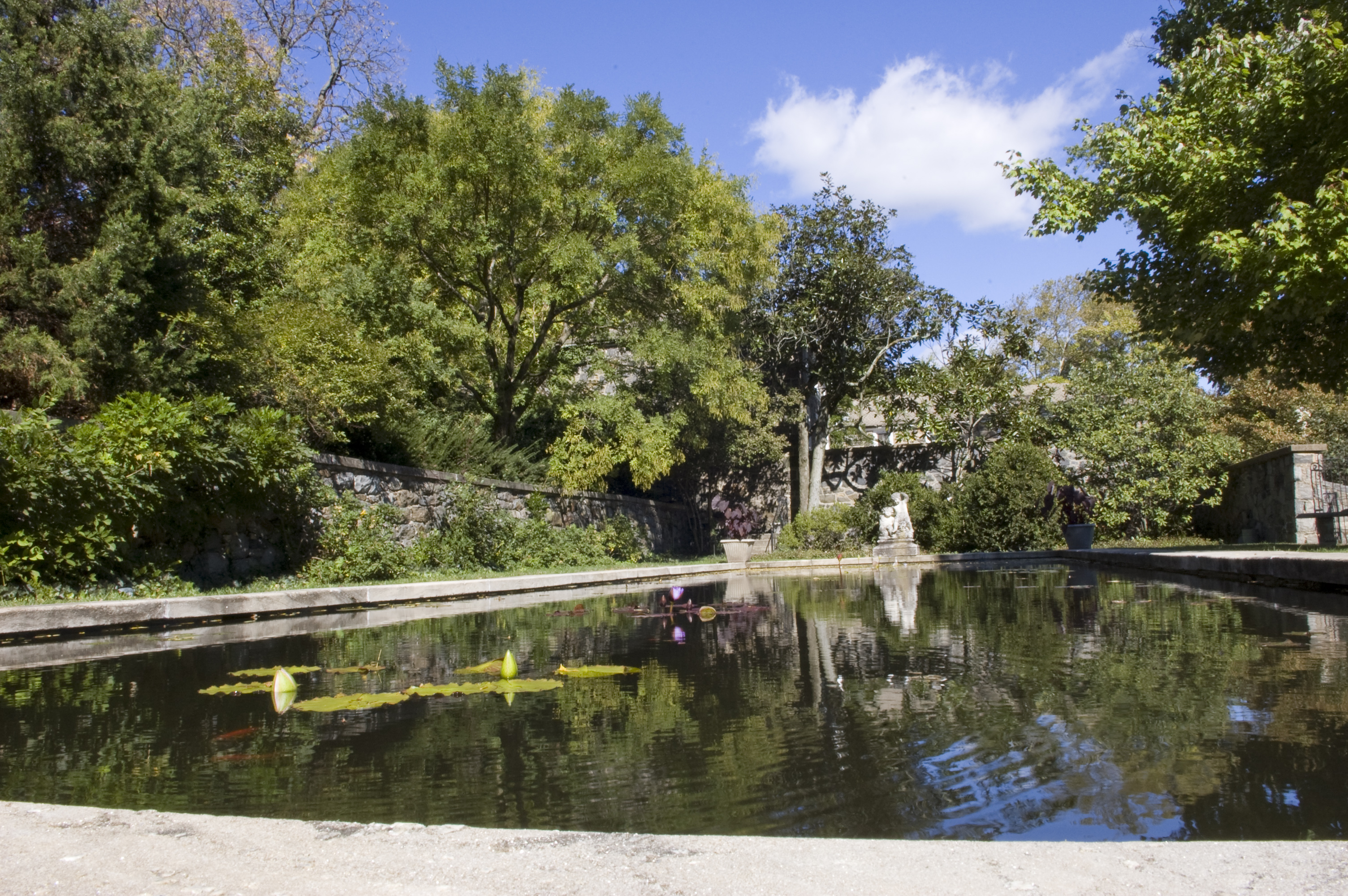 The Reflecting Pool in the garden of Gibraltar in Wilmington, Delaware.